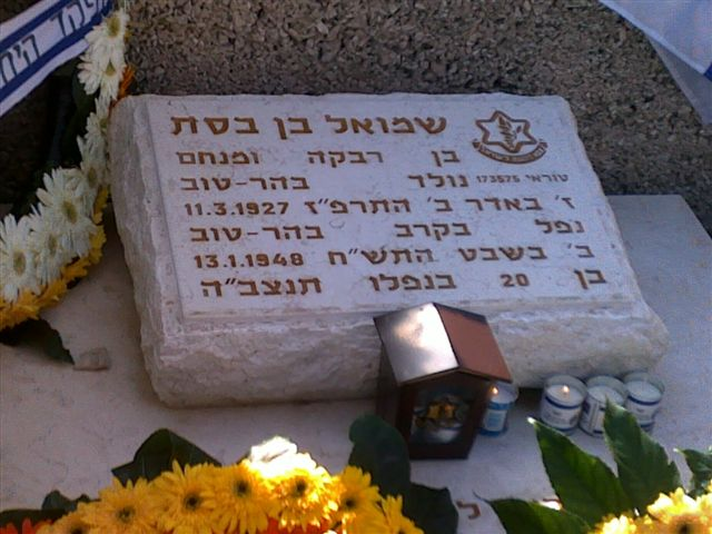 Grave of Shemuel Ben Bassat